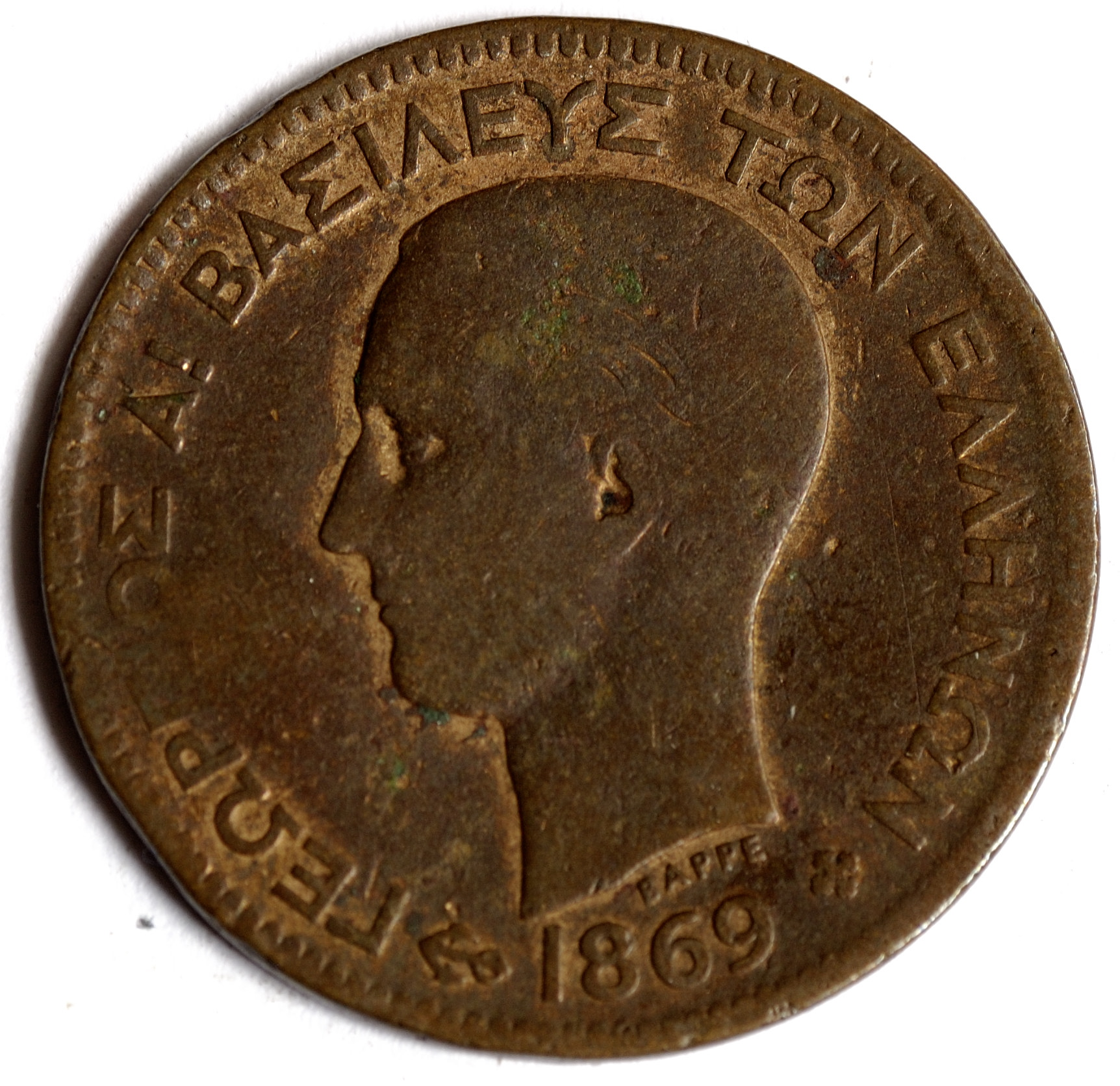 5 Greek leptons (1869)